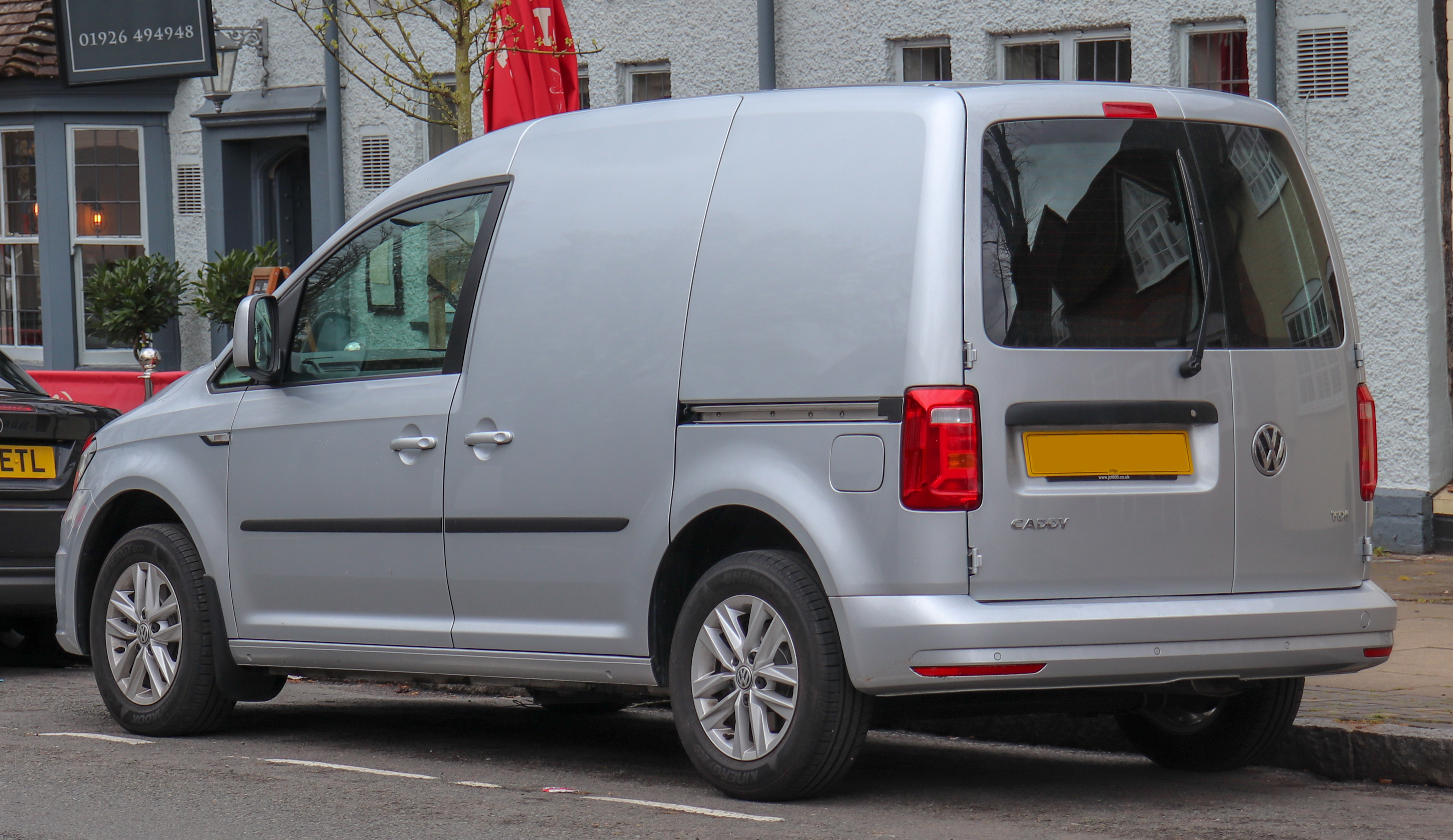 2018 Volkswagen Caddy C20 Highline TDi 2.0 Rear Taken in Warwick